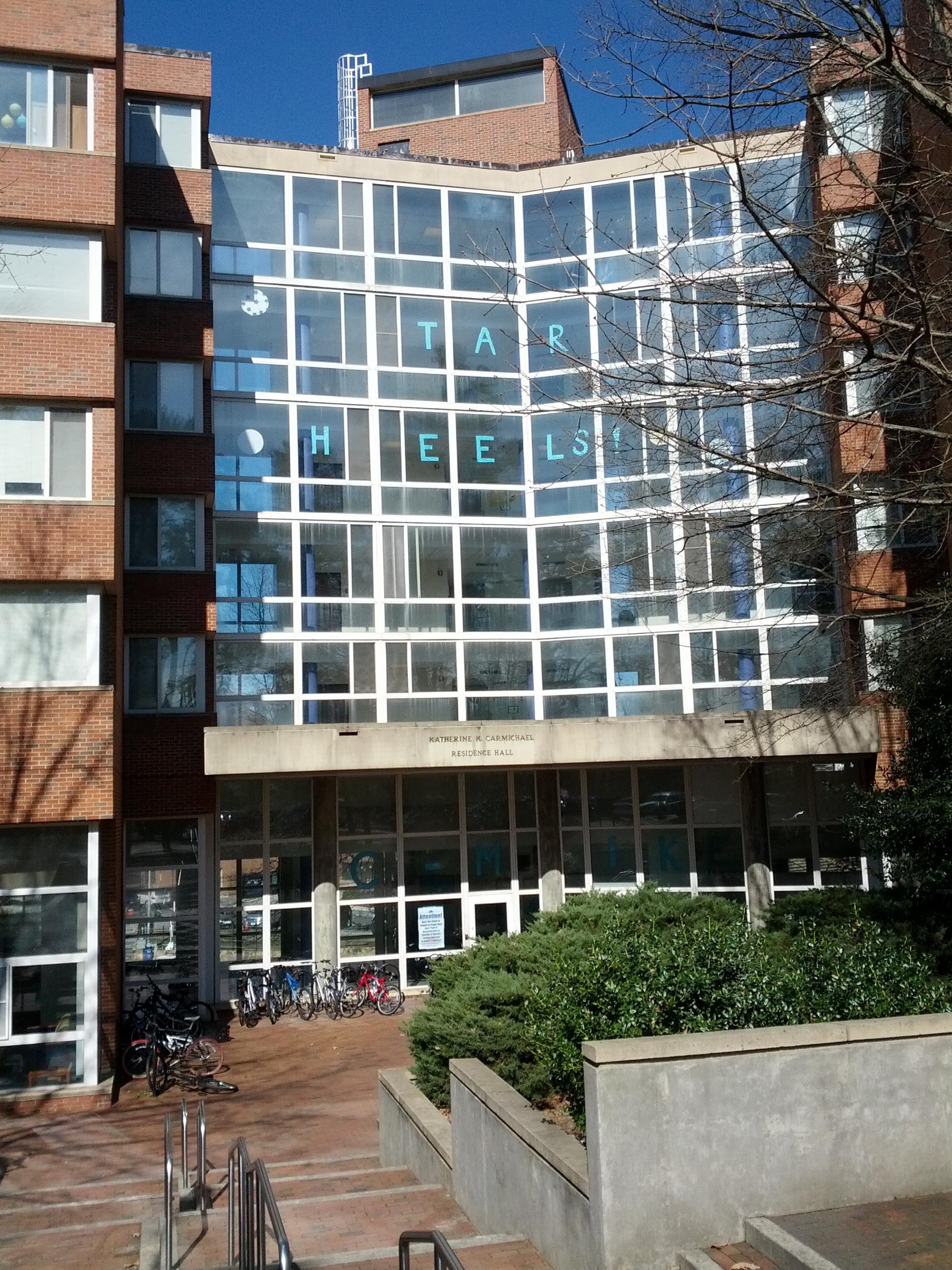 Katherine K. Carmichael Residence Hall, University of North Carolina at Chapel Hill student housing